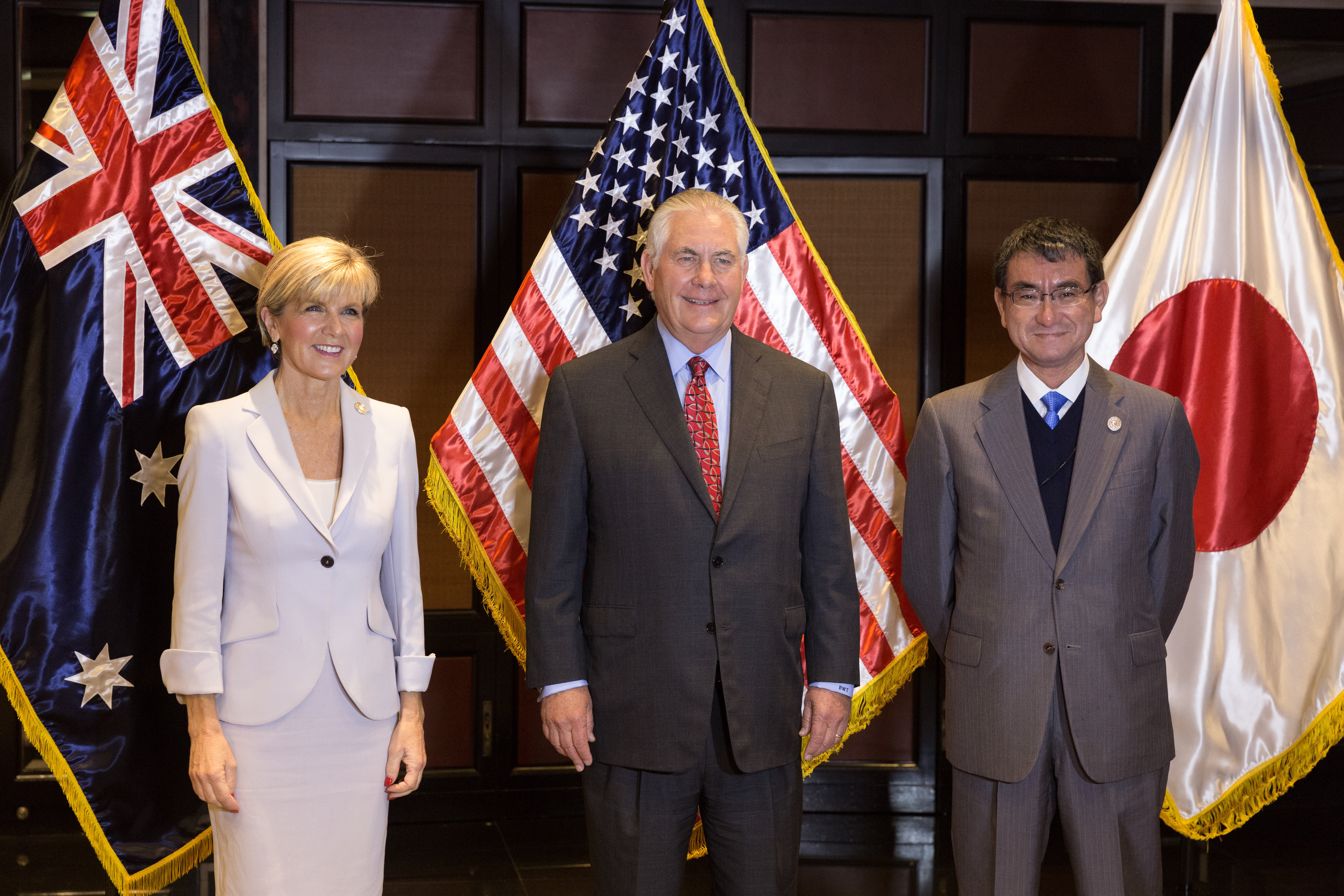 U.S. Secretary of State Rex Tillerson holds a trilateral meeting with Australian Minister for Foreign Affairs Julie Bishop and Japanese Minister for Foreign Affairs Tarō Kōno in Manila, Philippines on August 7, 2017. [State Department photo/ Public Domain]